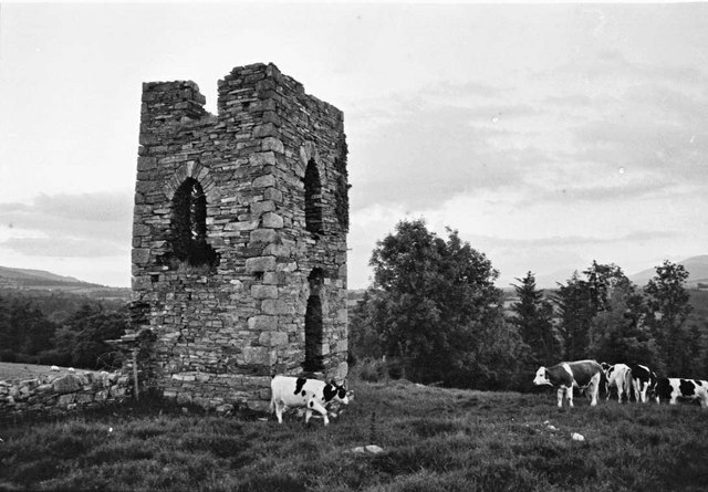 Tower at Coolhill, Co. Kilkenny Demesne tower near the medieval Coolhill Castle on a high cliff over the River Barrow.